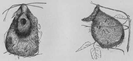 Grey warbler (Gerygone igata) nests.